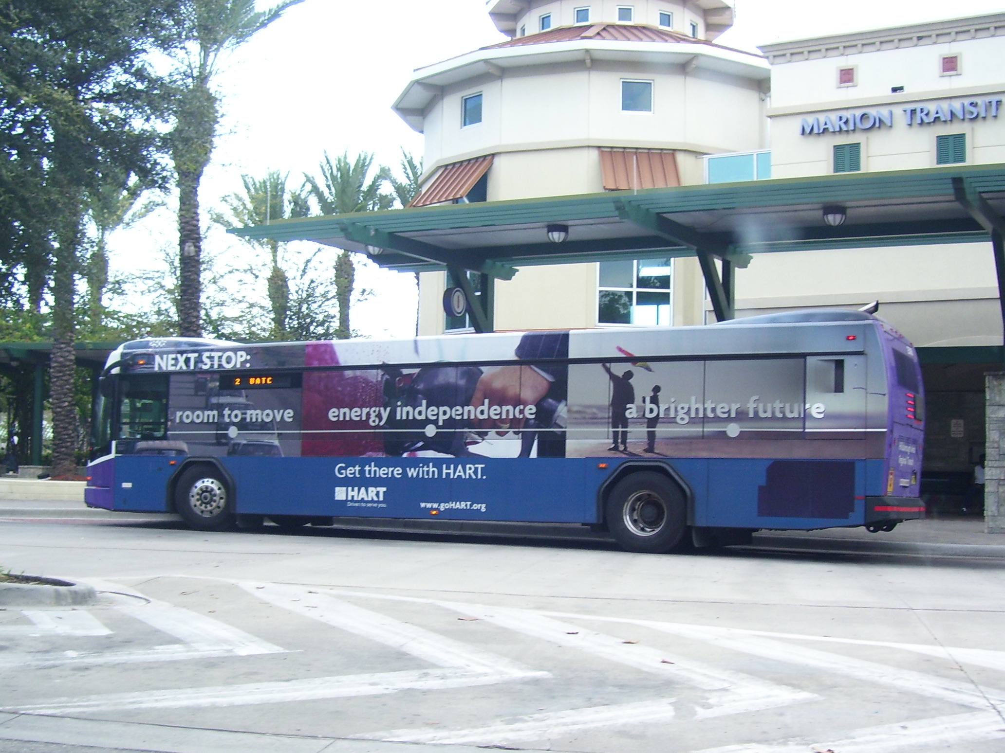 Taken by W. Slupecki